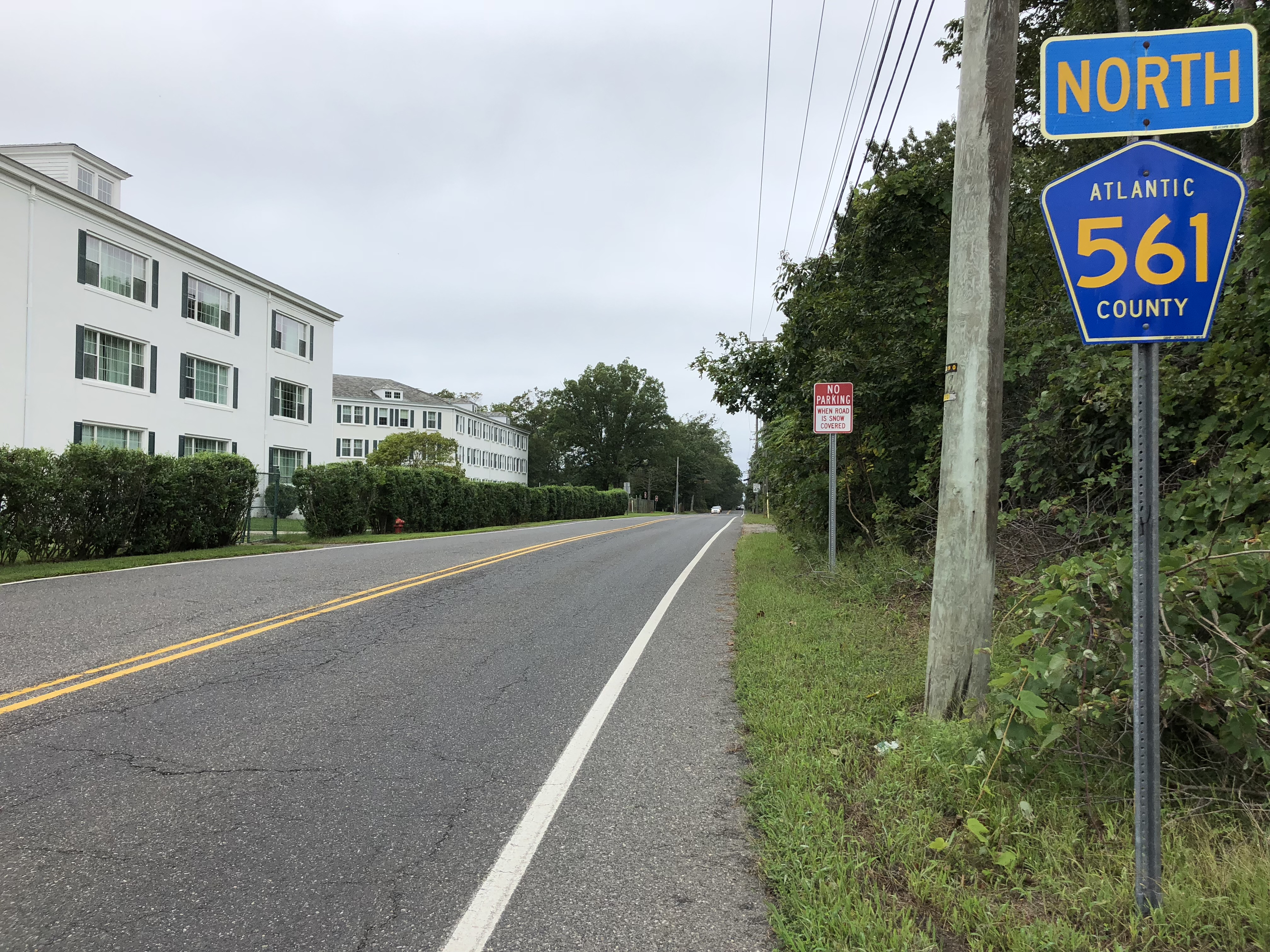 View north along Atlantic County Route 561 (Jimmie Leeds Road) just north of U.S. Route 9 (New York Road) in Galloway Township, Atlantic County, New Jersey